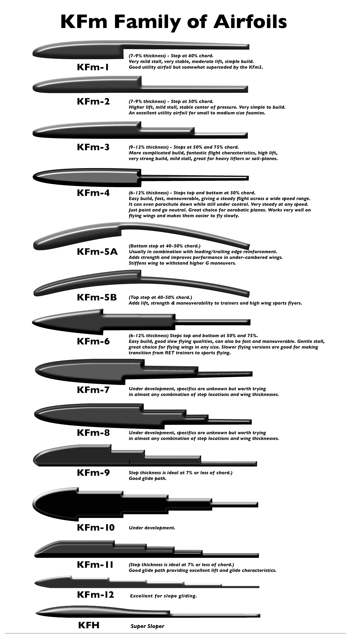 Showing variations on the KFm Airfoil Family of airfoils